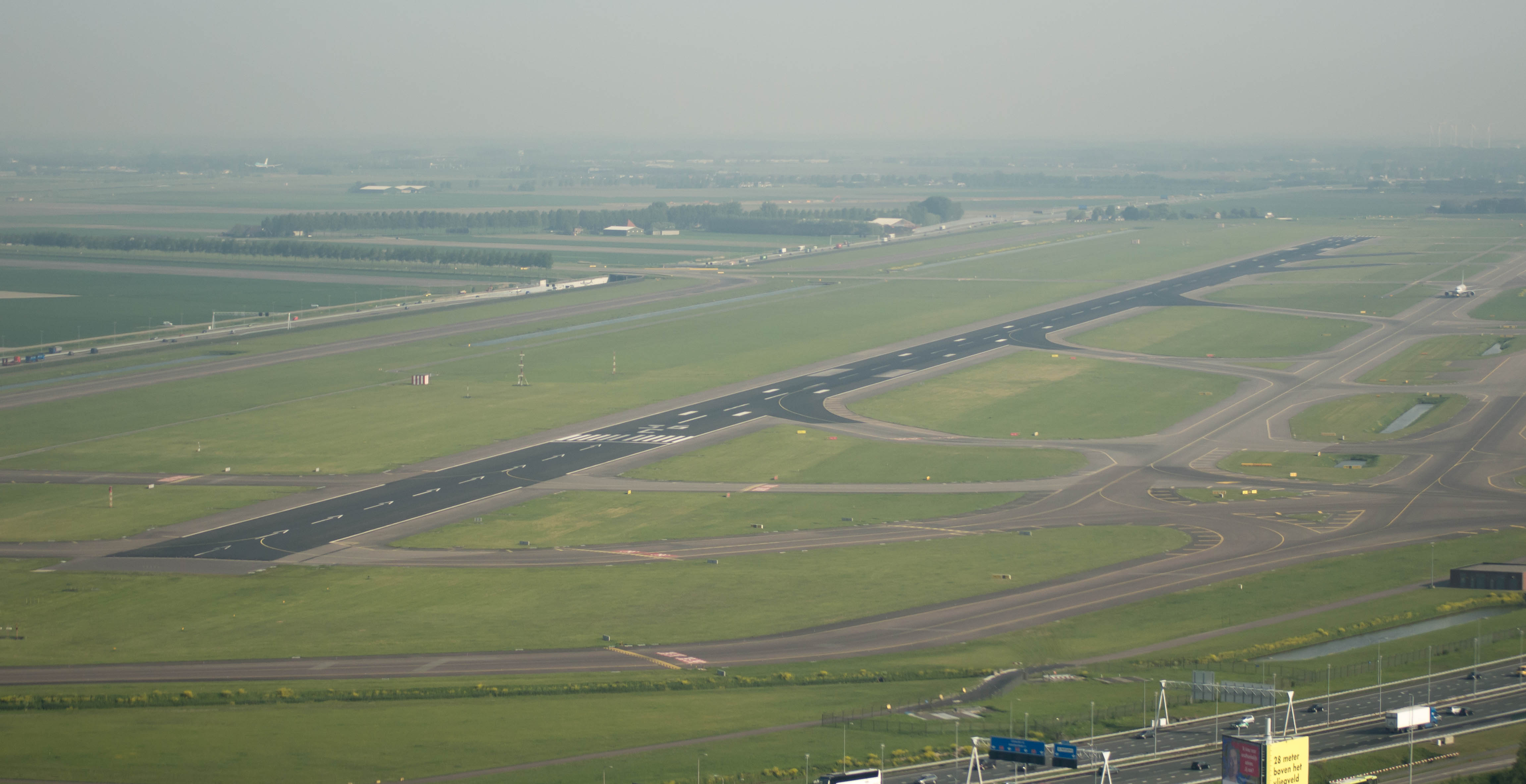 Aerial view of the Zwanenburgbaan of Schiphol. Picture taken from Estonian Airways flight OV 174.